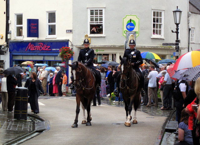 Wells High Street Members of Avon and Somerset Police force heading from Broad street up Wells High street. They were leading the funeral procession of Harry Patch 'the last British Tommy' on its way to Wells Cathedral.